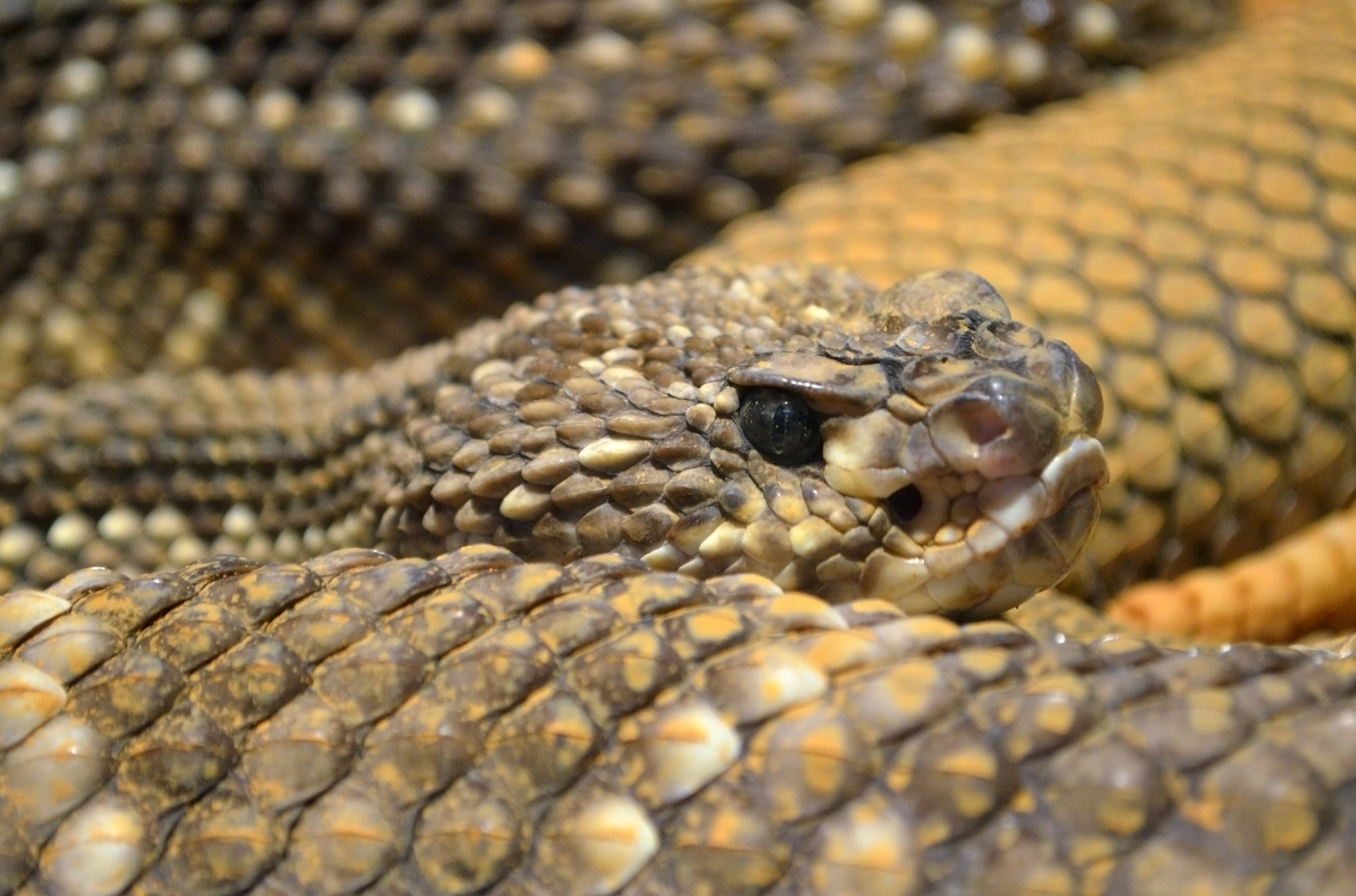 Crotalus durissus - Natural History Museum of Nantes